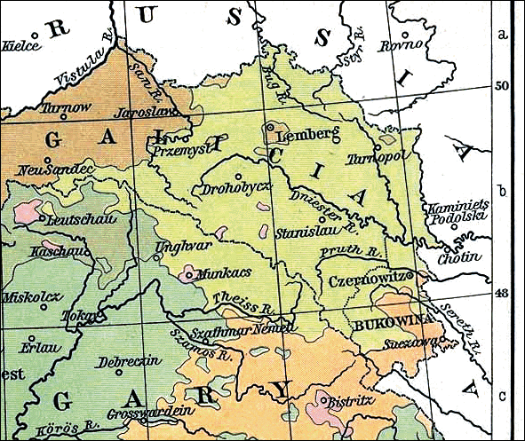 Map showing the Ukrainian (Ruthenian) peoples (in light green) inside Austro-Hungarian Empire. This map is part of the map of ethno-linguistic groups in Austria-Hungary.